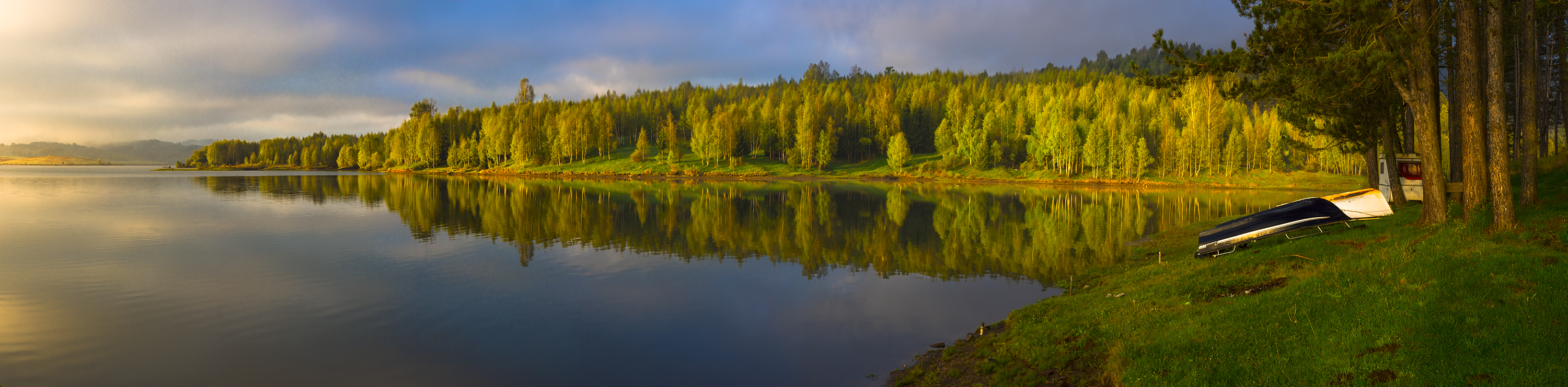 Ово је фотографија заштићеног природног добра у Србији под шифром: ПИО23This is a a photo of a natural area in Serbia with ID: ПИО23 Panoramic photo of a sunrise at Vlasina lake in Serbia.